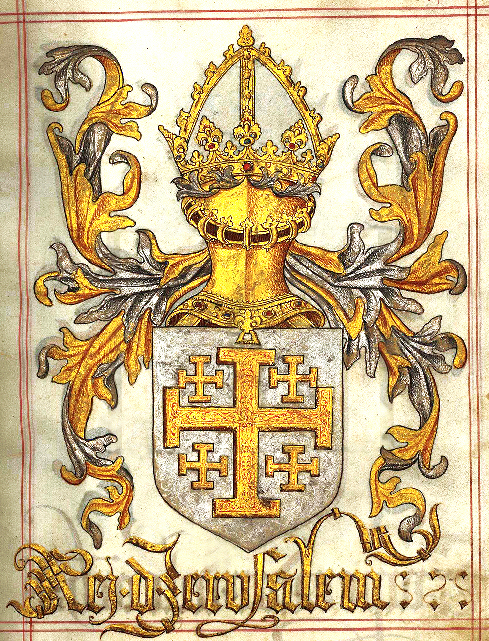 King of Jerusalem